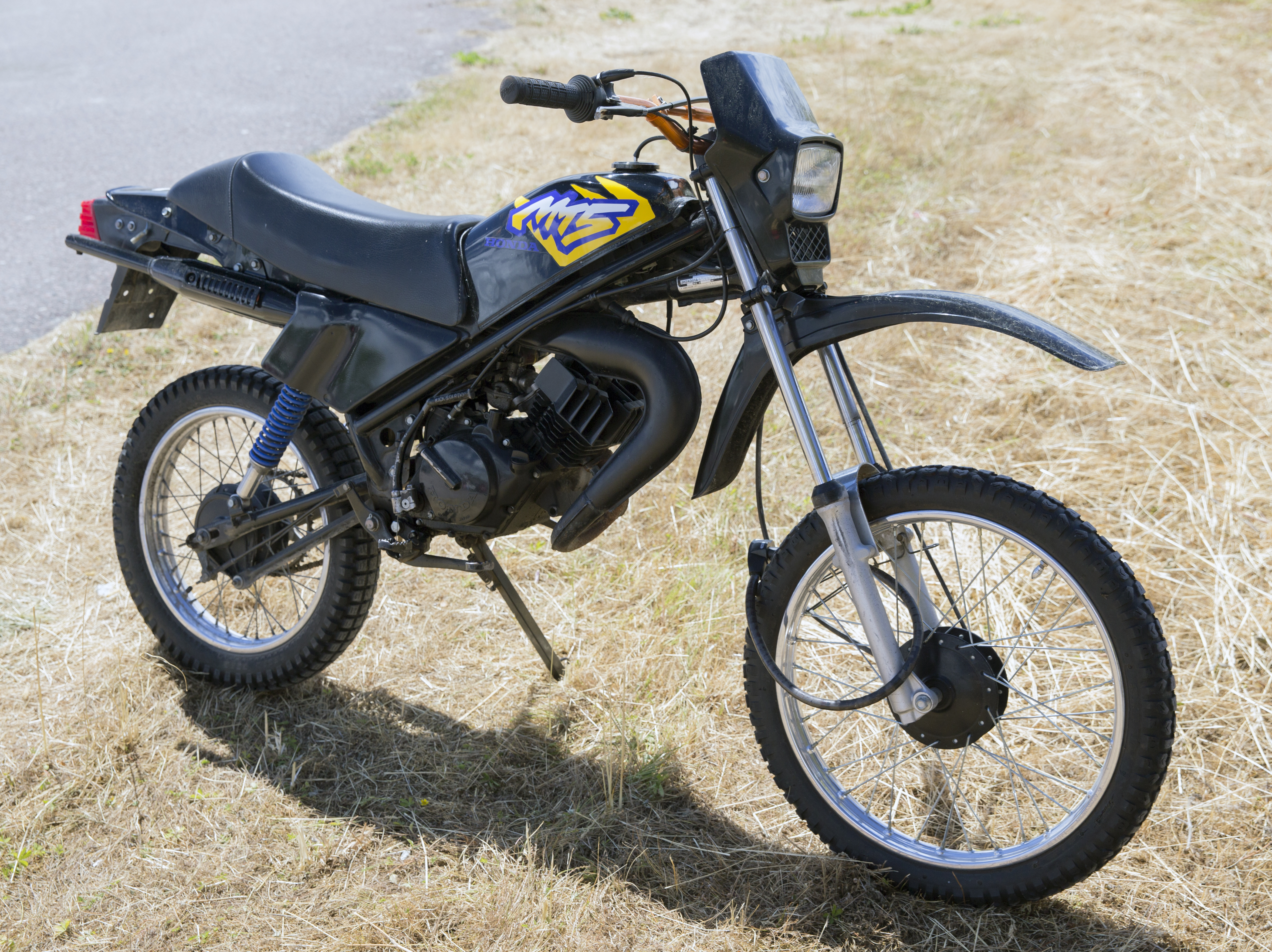 1996 Honda MT-5 seen on Öland, Sweden. Assembled in Spain, judging by the Spanish-language chassis plate.